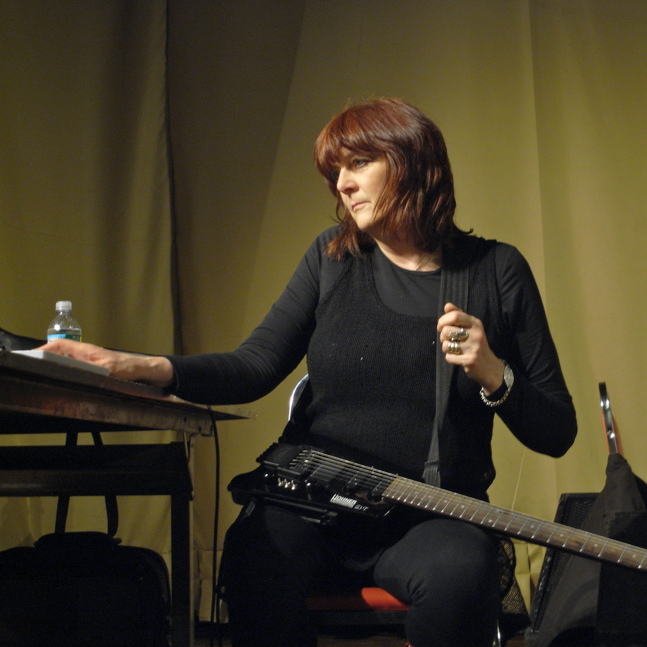 Cosey Fanni Tutti performing with Throbbing Gristle in Brooklyn, New York